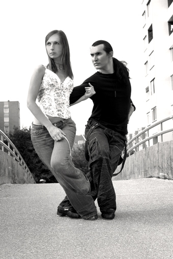 Blaz and Andrea - Tango Nuevo dancers